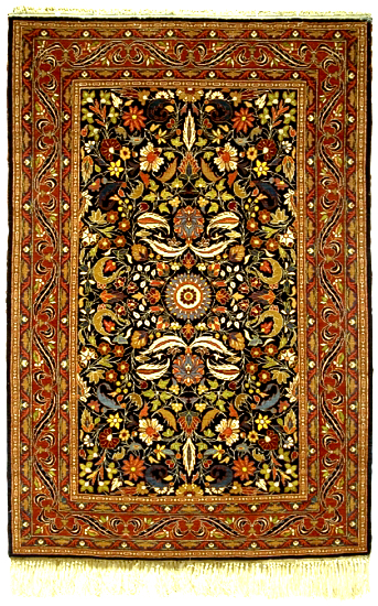 Azerbaijani rug Afshan, Azerbaijan National Art Mueum